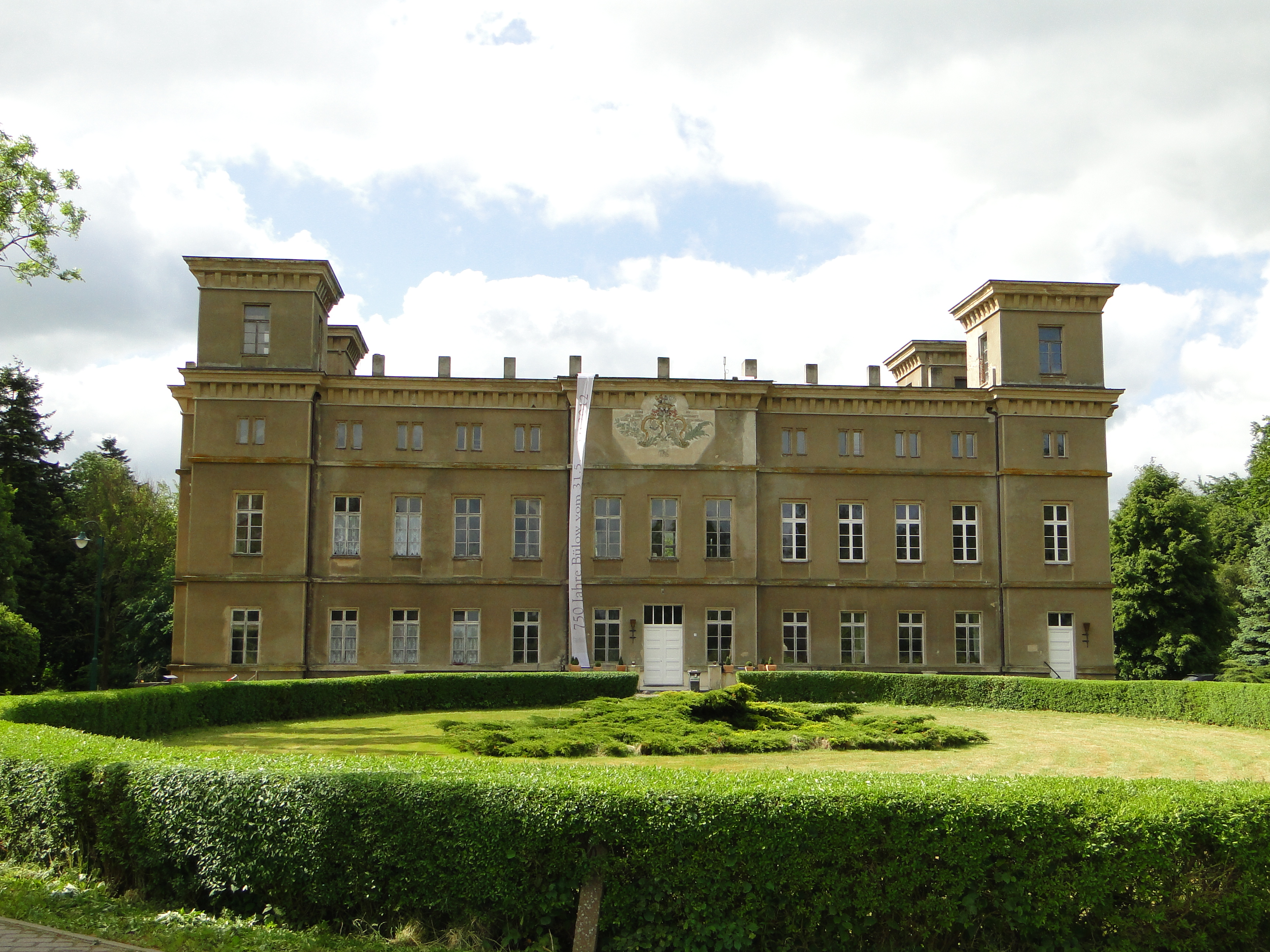 Manor house in Bülow, district Ludwigslust-Parchim, Mecklenburg-Vorpommern, Germany